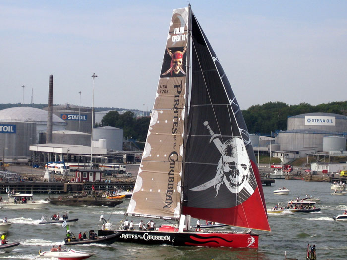 Pirates of the Caribbean near the finish line (in Gothenburg) of last leg of Volvo Ocean Race 2005/2006. (The name of this yacht is The Black Pearl)